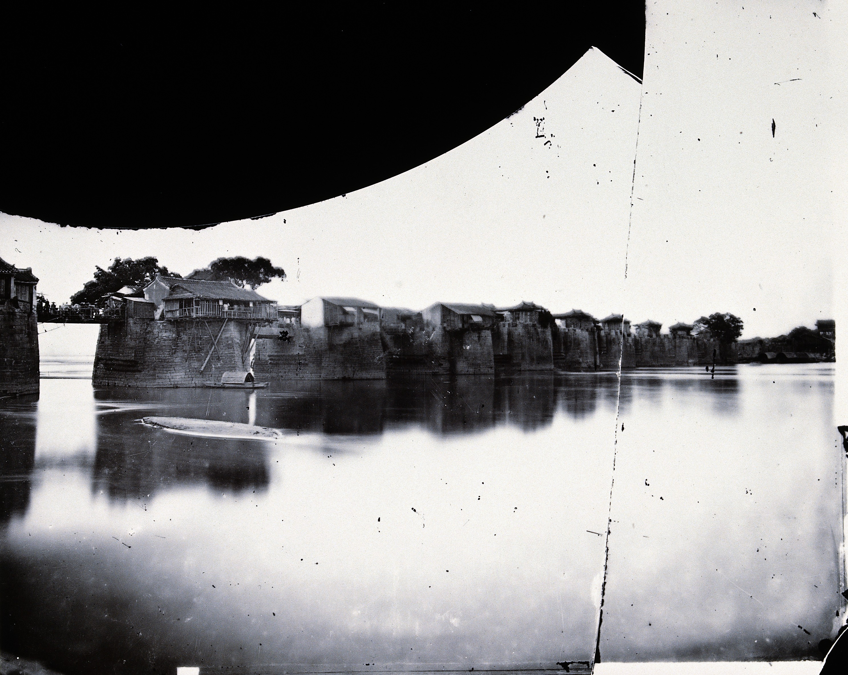 Chowchowfu, Kwangtung province, China. Iconographic Collections Keywords: john thompson; Water; China; Landscape; John Thomson